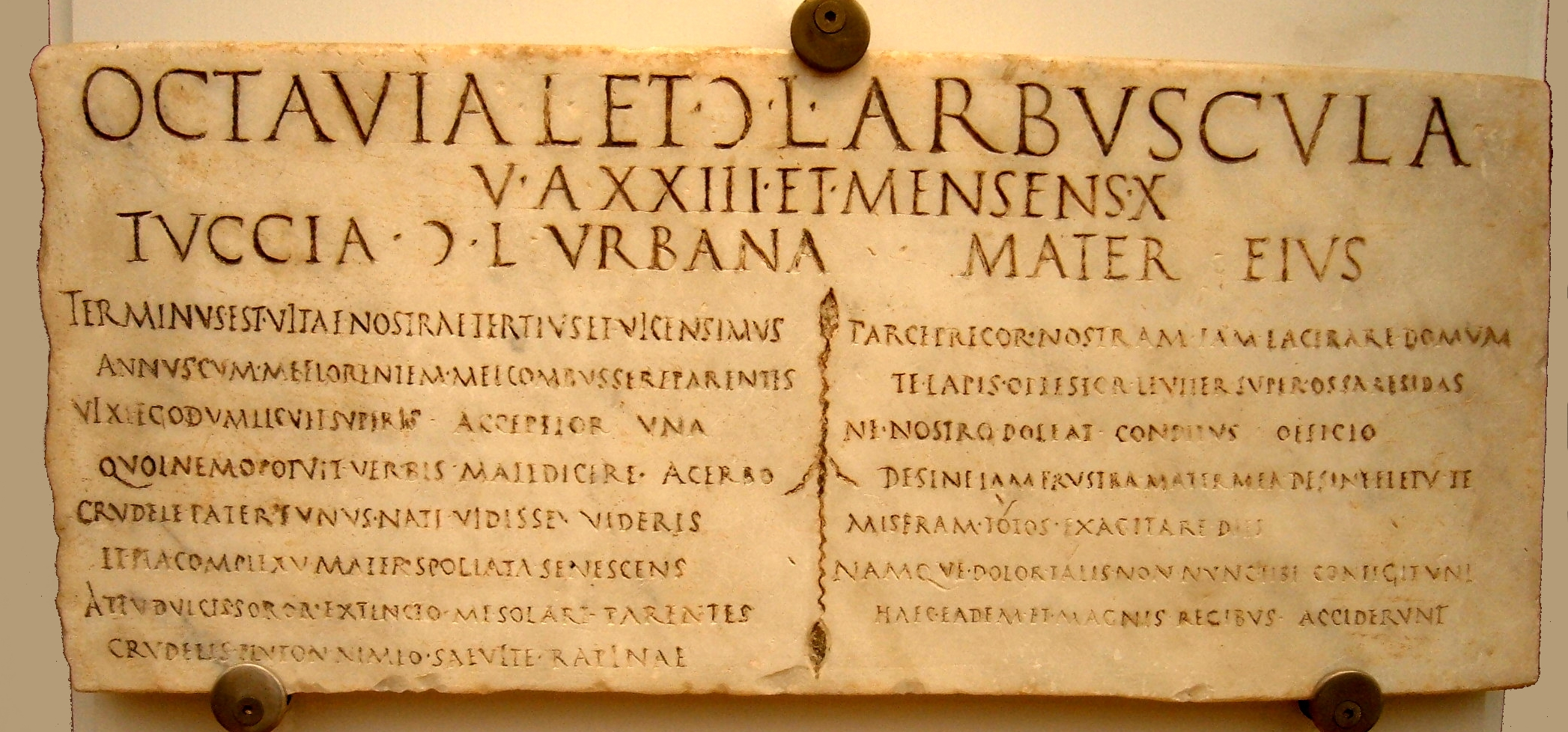 Sepulchral inscription for Octavia and Arbuscula.